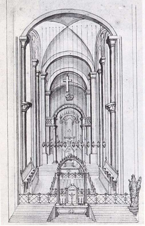 Speyerer Dom, innen, um 1780